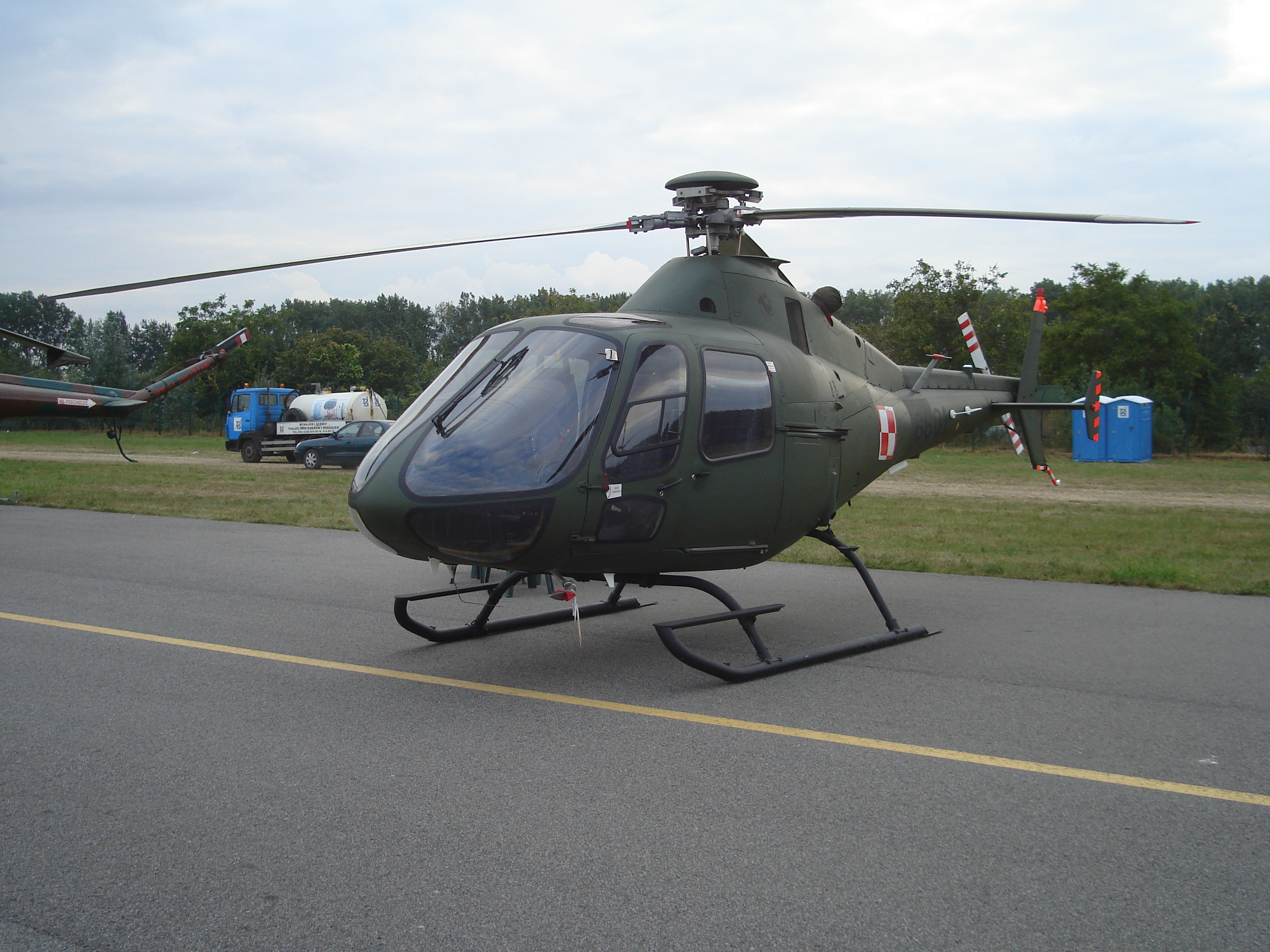 Picture of PZL SW-4 Puszczyk, Radom Air Show 2007